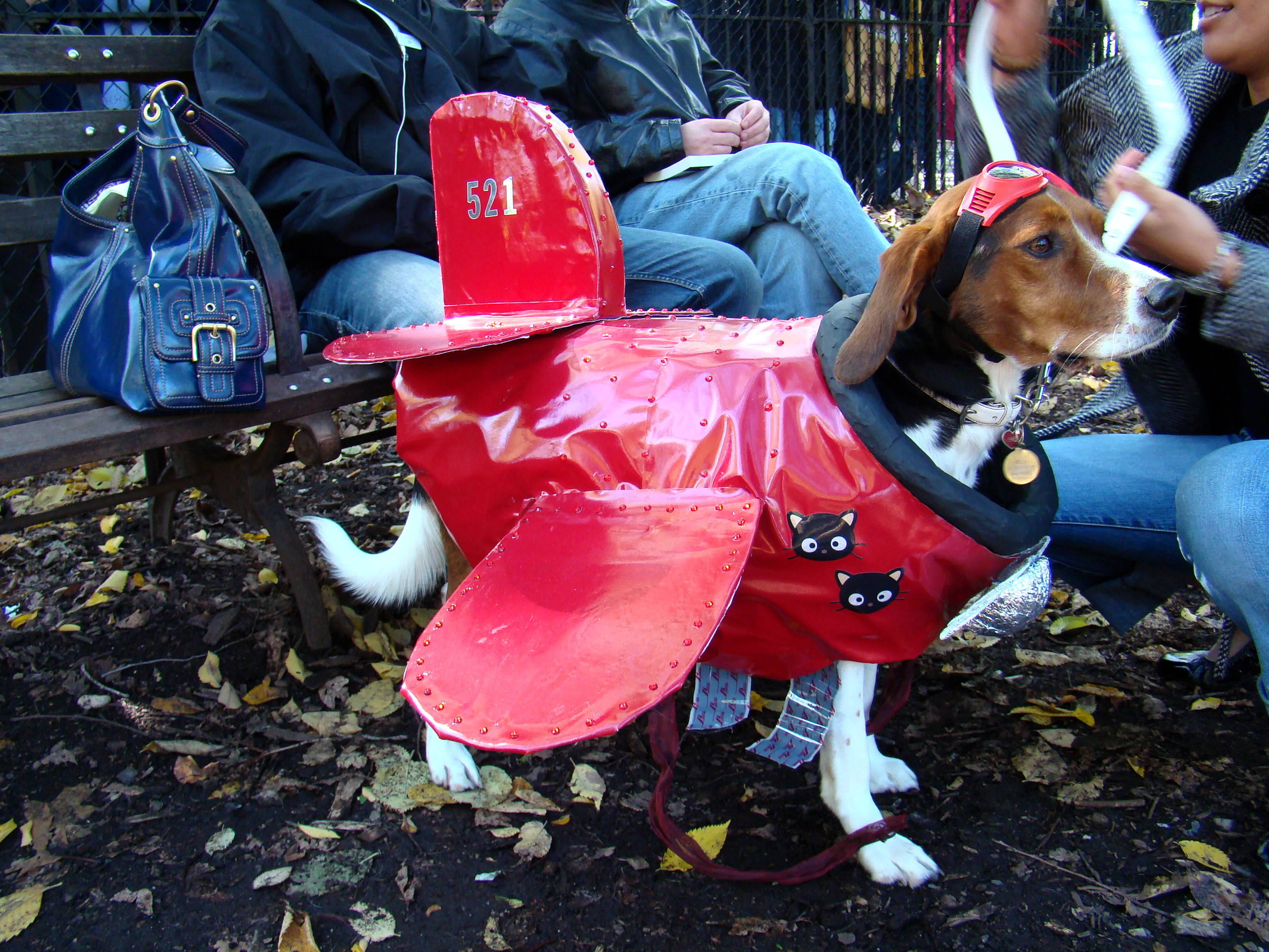 red barron